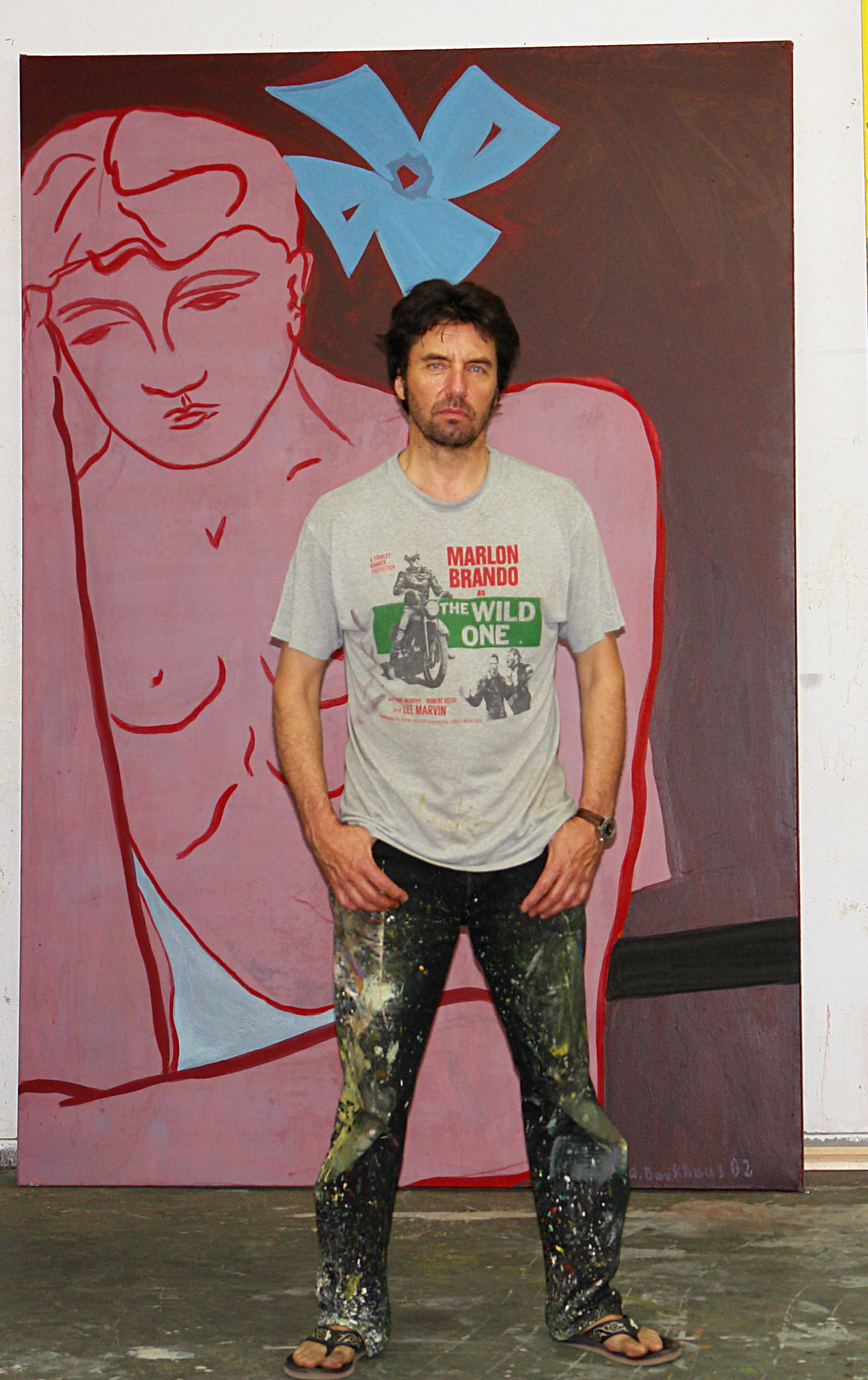 Portrait of german painter Arno Backhaus